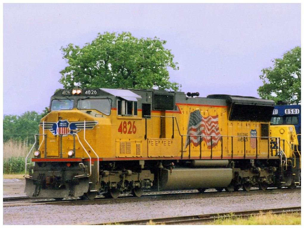 Union Pacific Railroad 4826 EMD SD70M